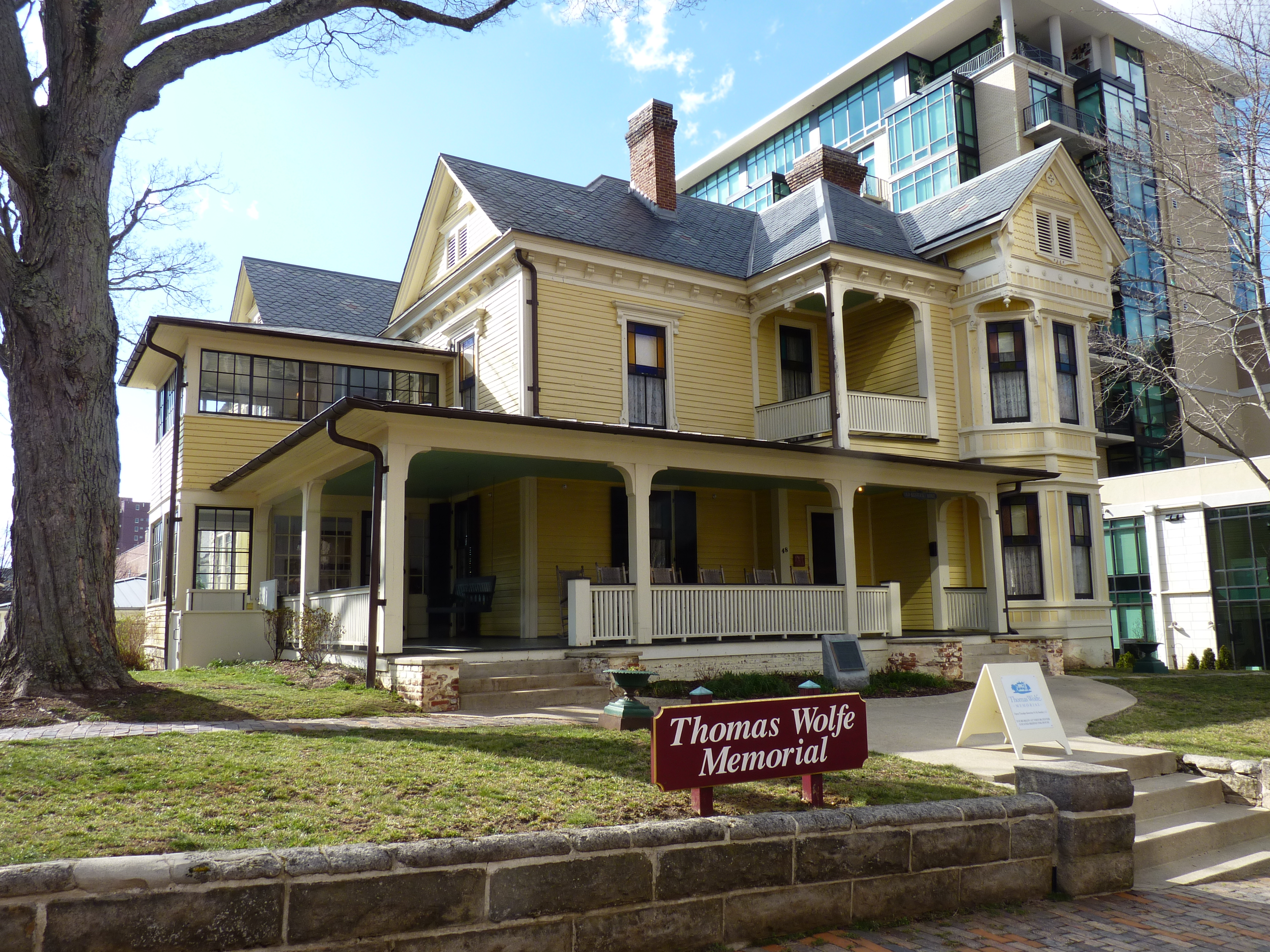 Thomas Wolfe House — in Asheville, Buncombe County, North Carolina. Of author Thomas Wolfe — a biographical Historic house museum in North Carolina.